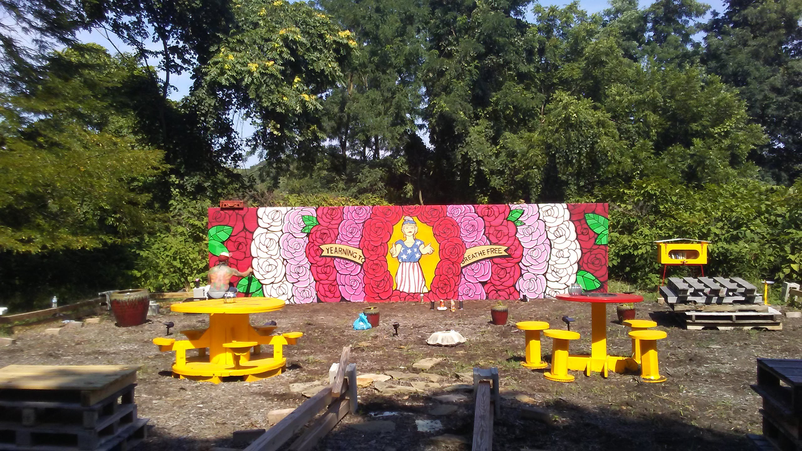 Mural after fixing it based on vandlaism